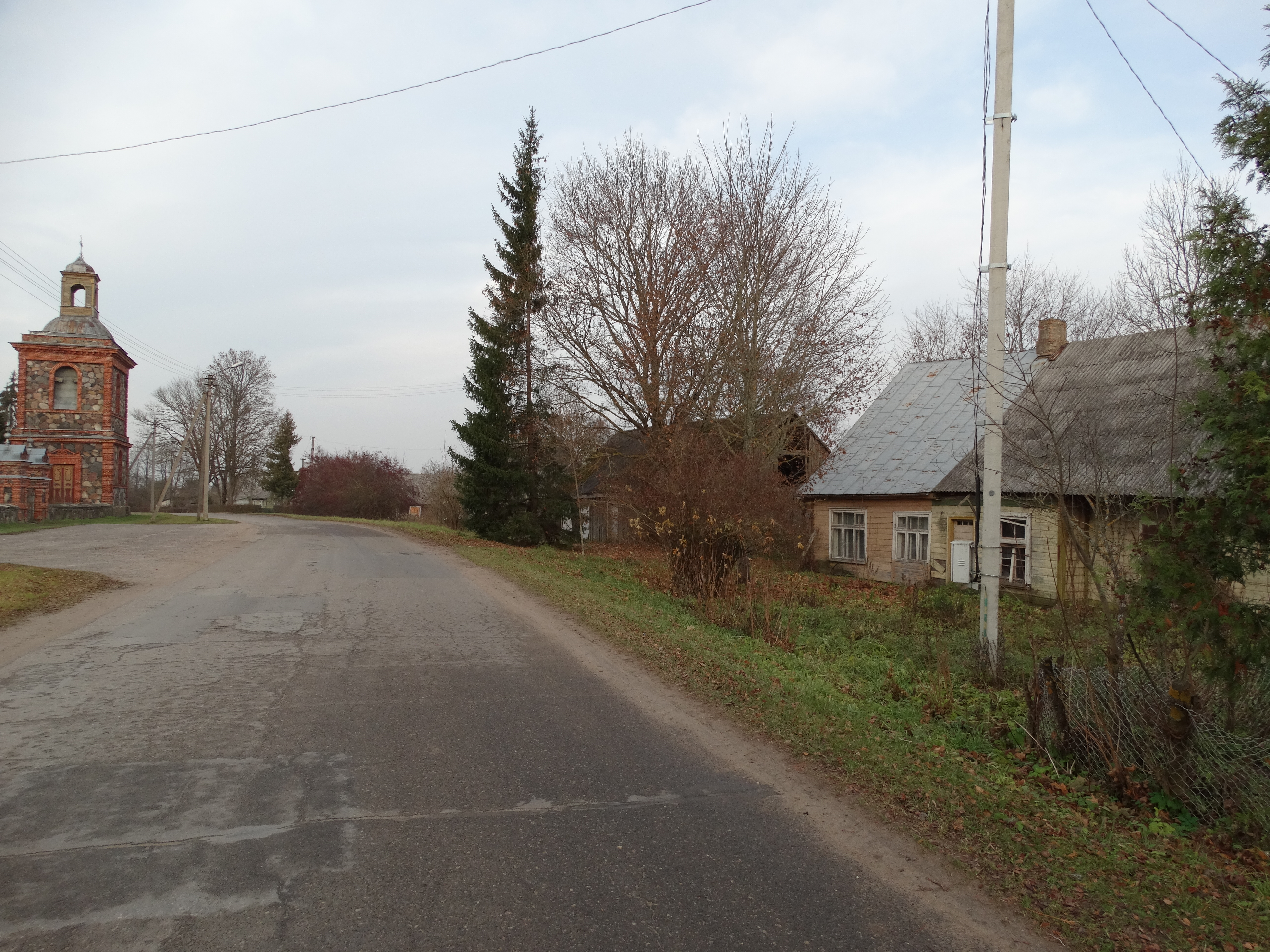 Kvetkai, Biržai district, Lithuania